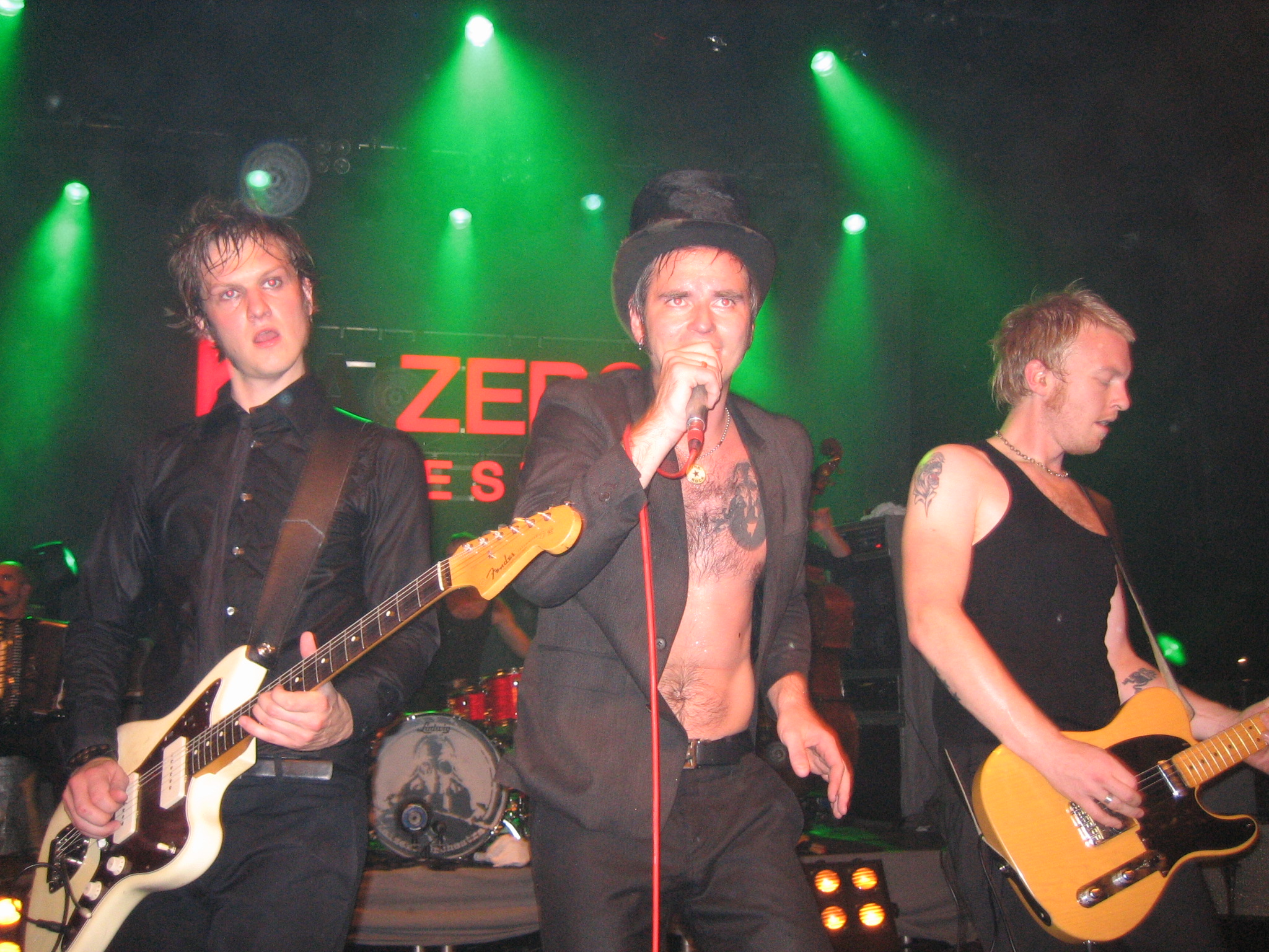 Geir Zahl, Janove Ottesen, and Terje Vinterstø of Kaizers Orchestra at the concert in Vega, Copenhagen, on the 6th of October, 2005.